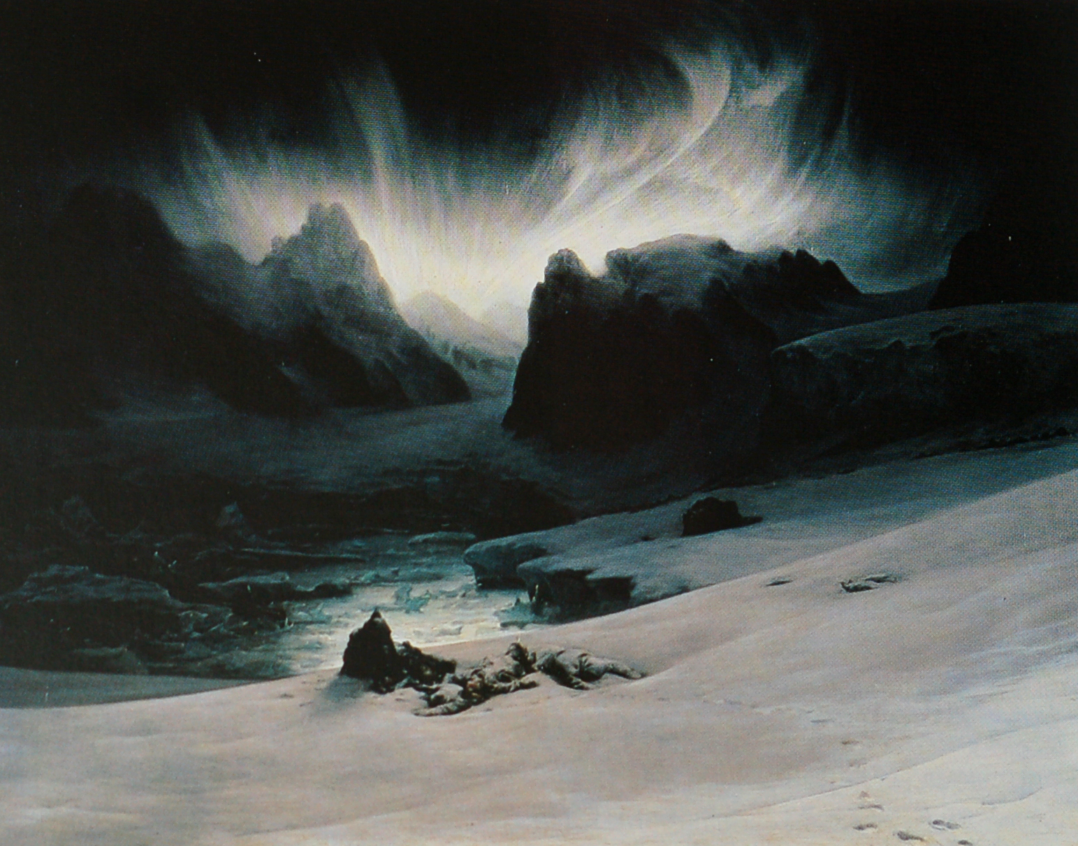 Magdalena Bay, view from a peninsula in northern Spitsbergen